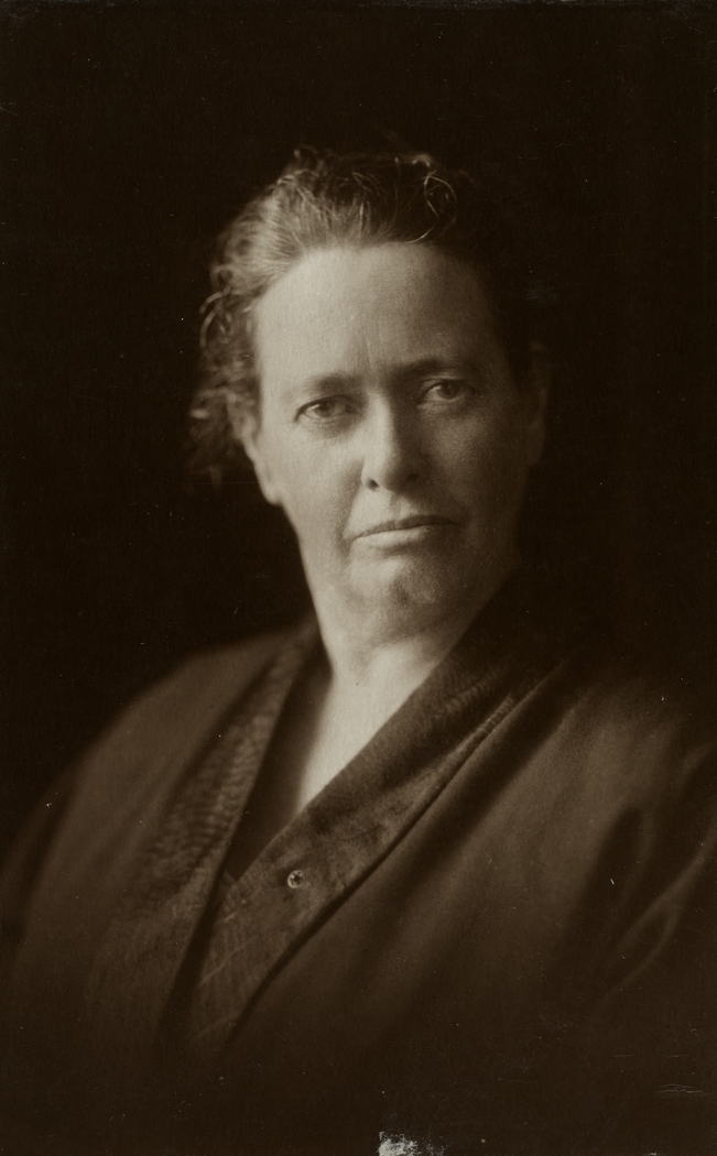 Margaret Windeyer (Margy) (1866-1939)